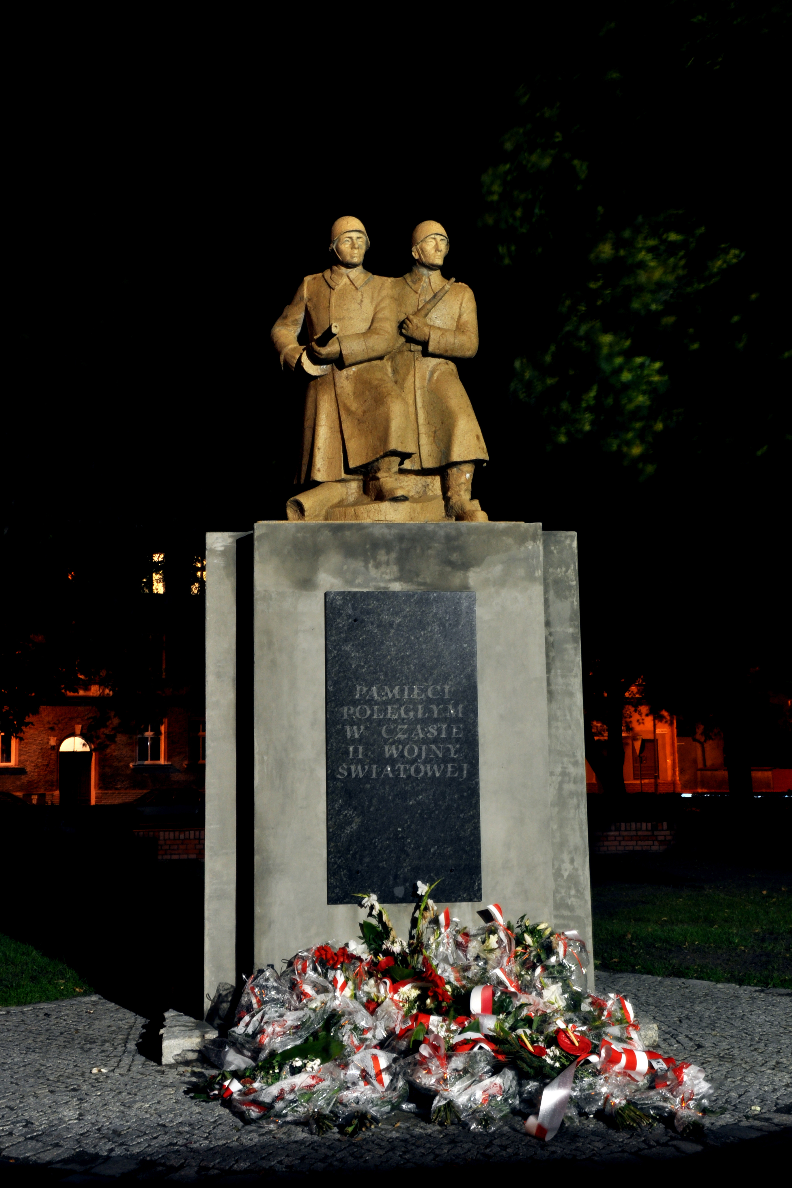 Monoument of Heroes in Słubice after modernization in 2011 year.